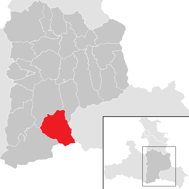 District Sankt Johann im Pongau